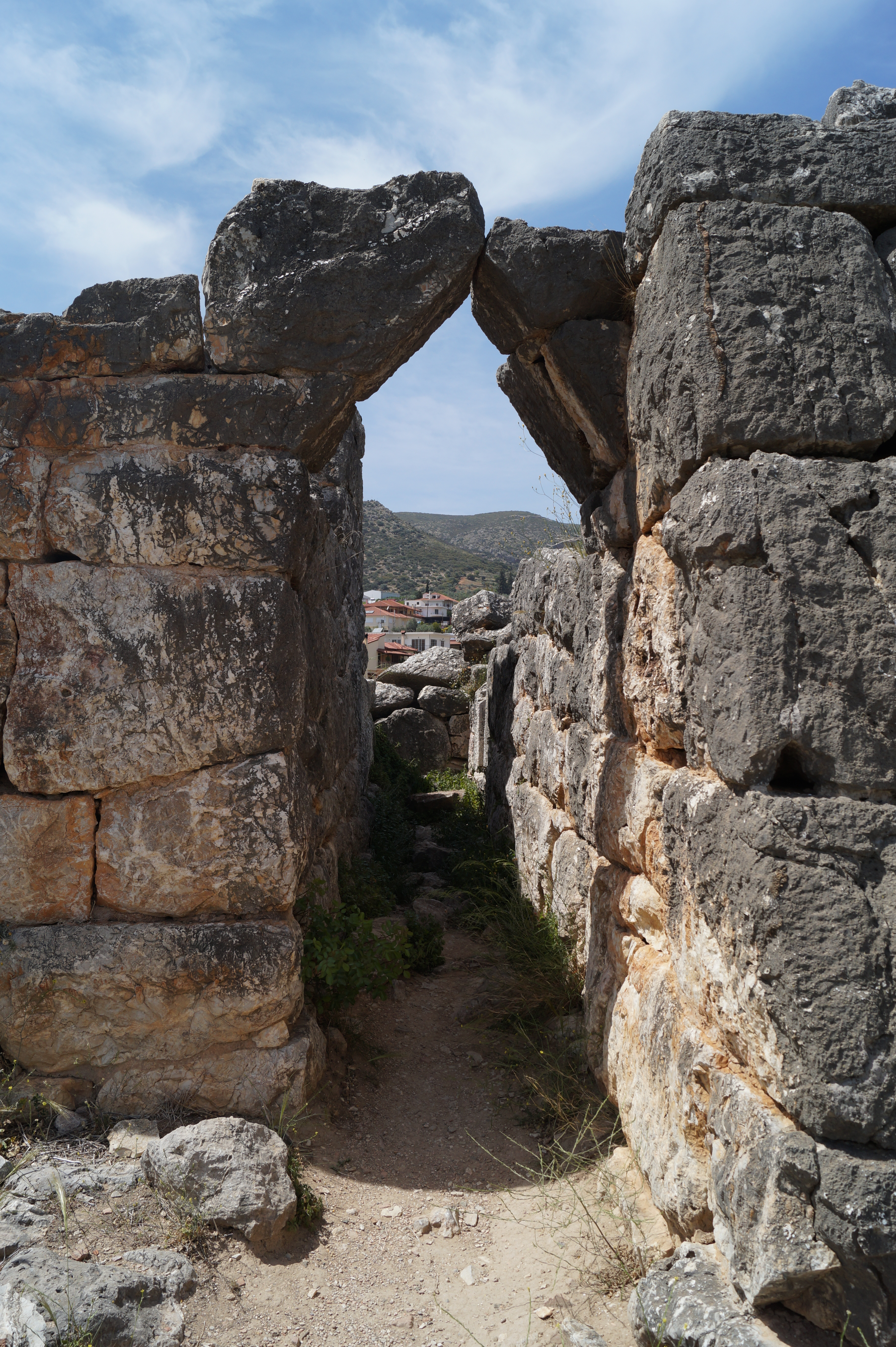 Pyramid of Hellenikon, Argolis, Greece: View from southeast on entrance and corridor.